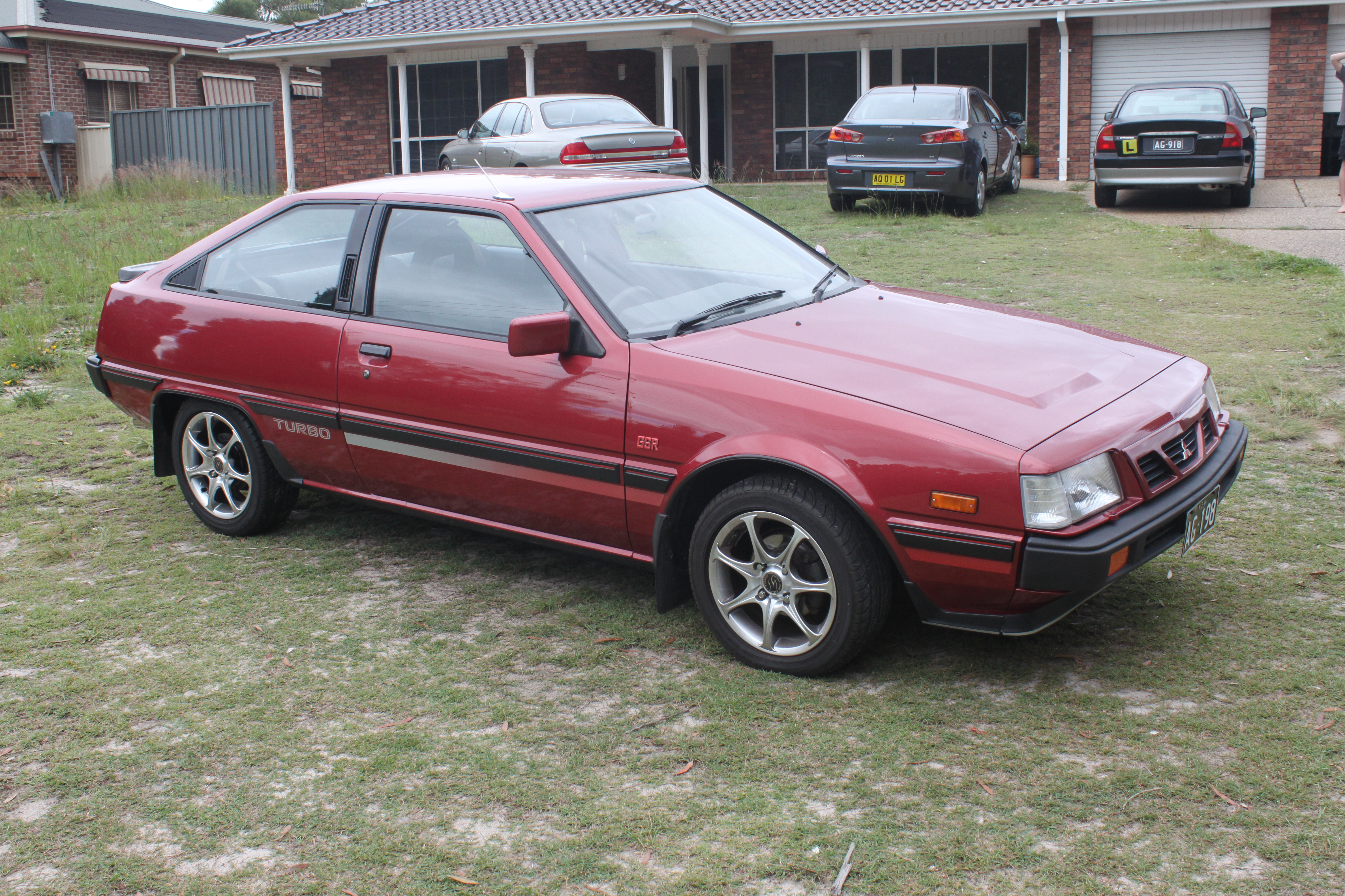 Mitsubishi Cordia AB Turbo